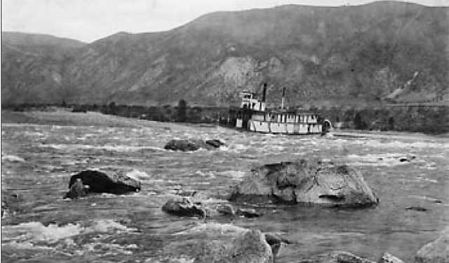 Tenino (sternwheeler) either in Columbia River between Celilo and Wallula, or in Snake River, ca 1870.